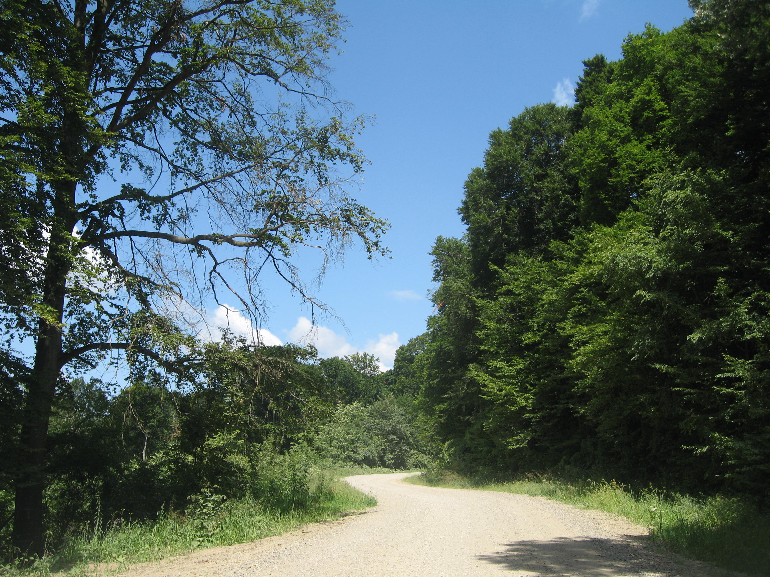 Rezervaţia Pădurea Pietrosu